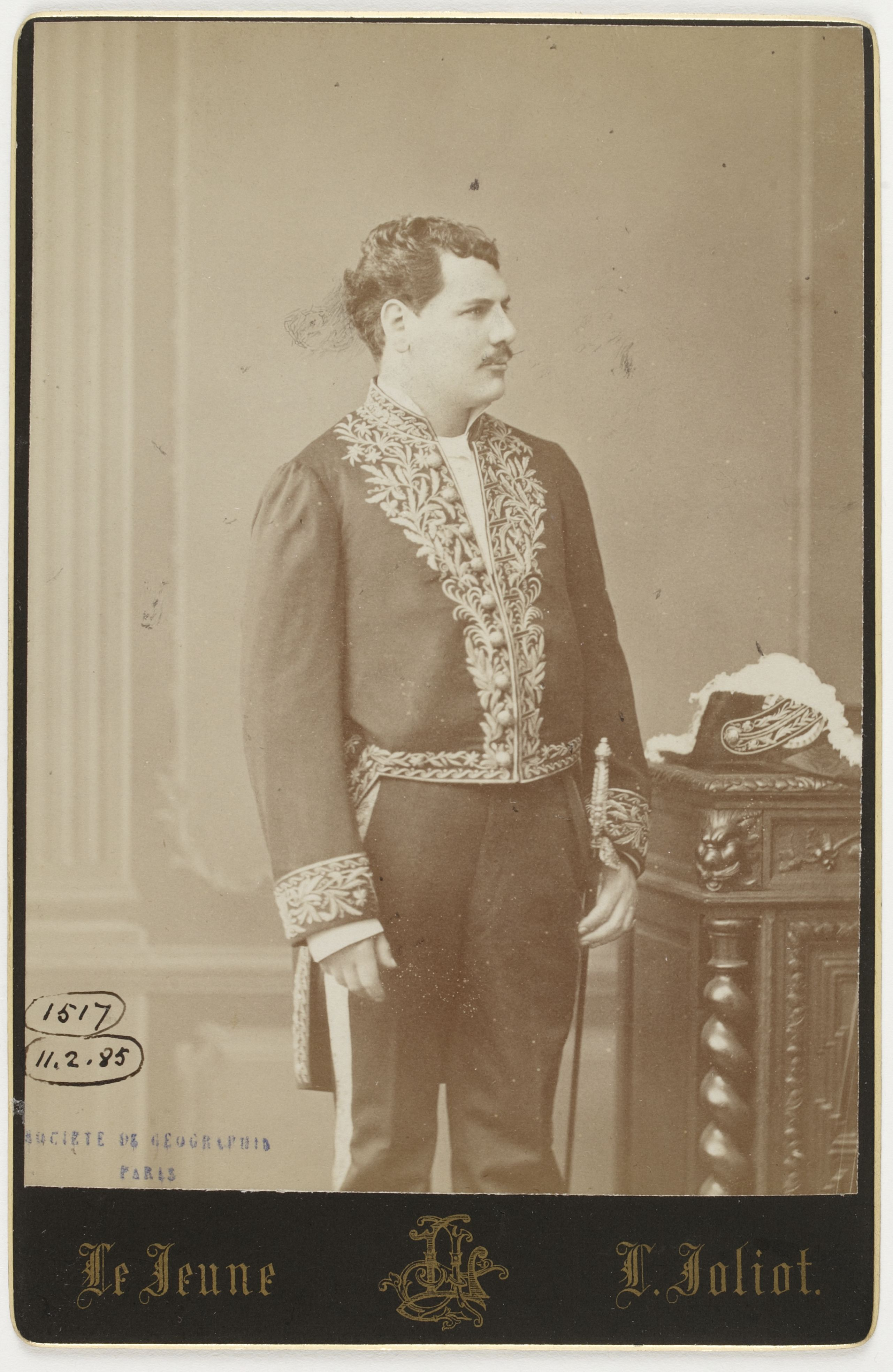 Photo of Manuel María de Peralta